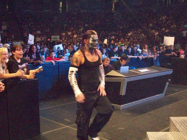 Hardy Goes To Enter The Ring